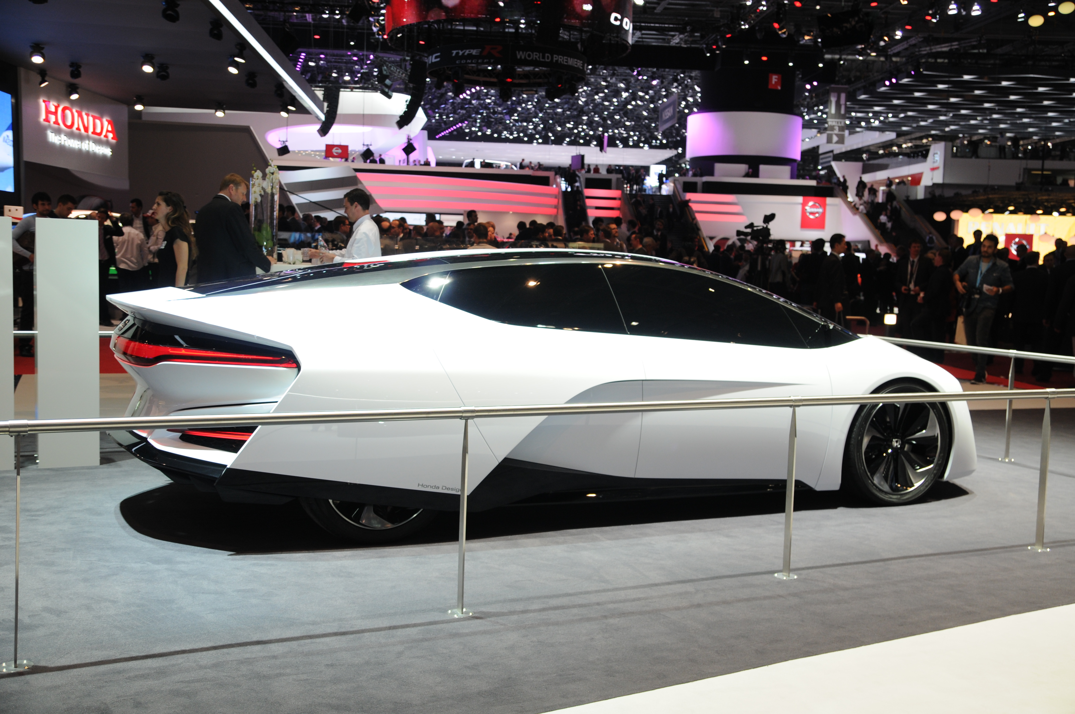 Geneva Motor Show 2014 (photo taken on the first press day)